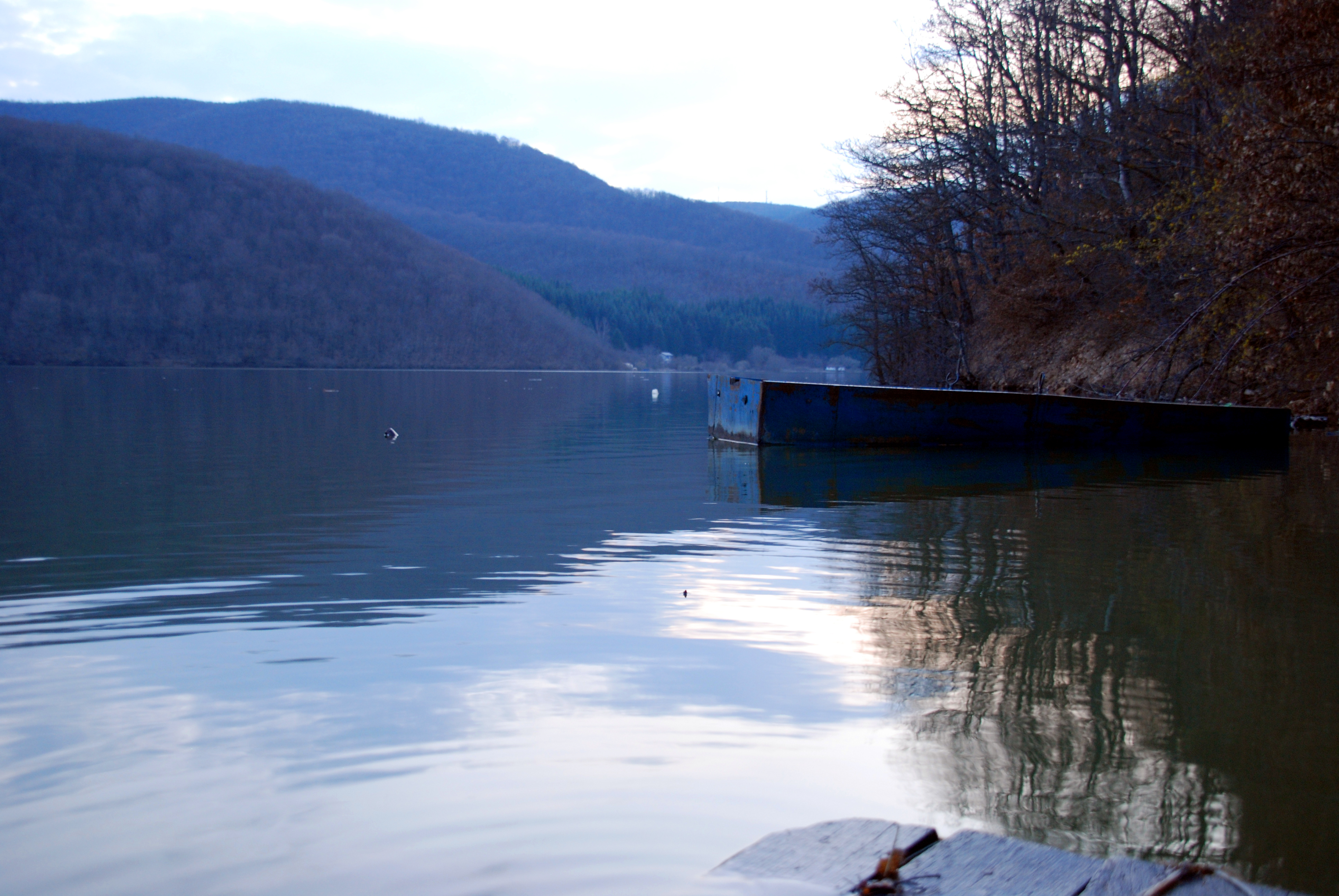 photo: Arian Selmani